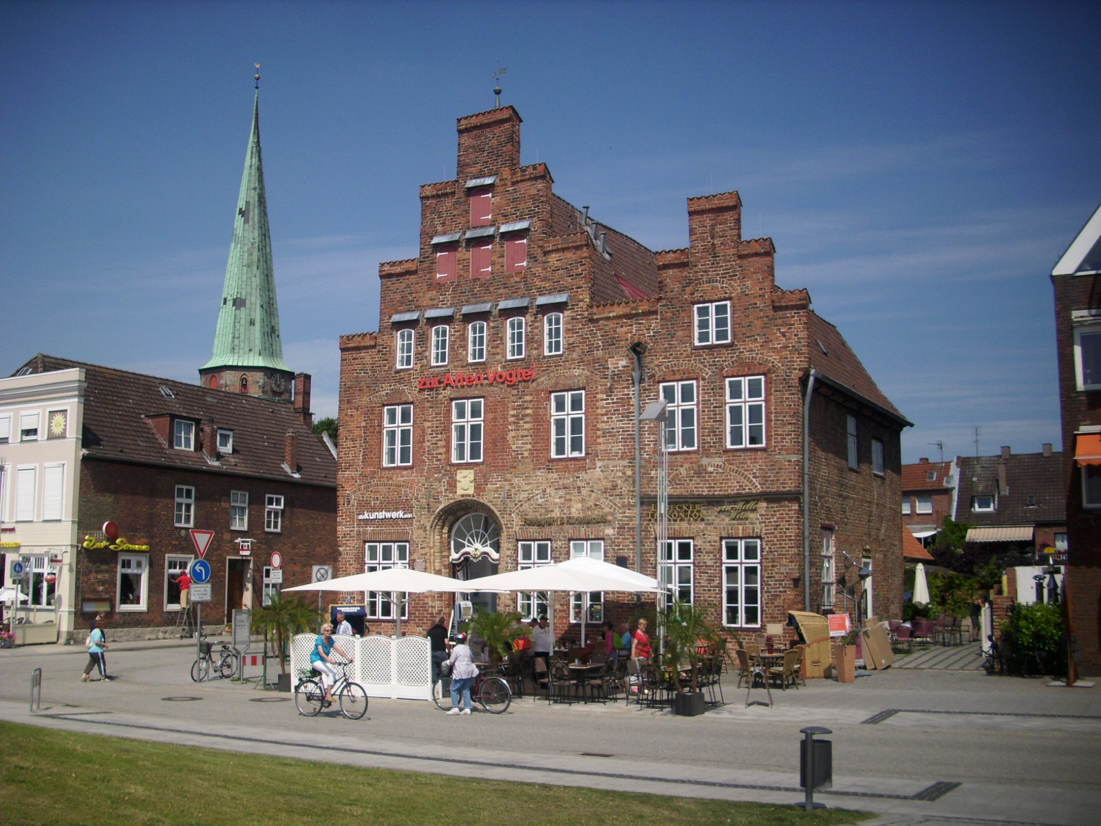 German seaside resort Travemuende, bailiff's residence from 1551 and tower of St. Lorenz Church